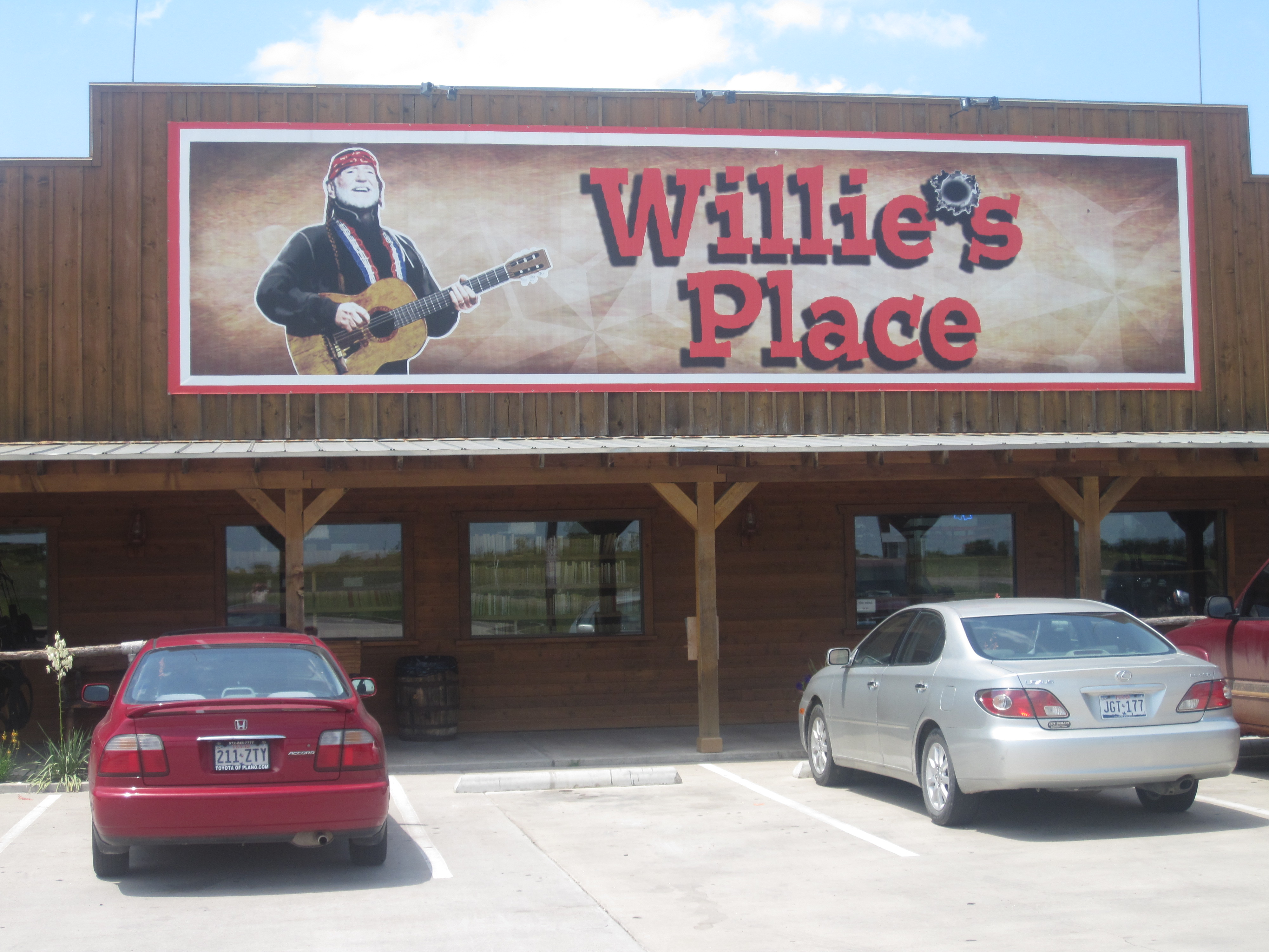 I took photo at Willie's Place near Hillsboro, TX.